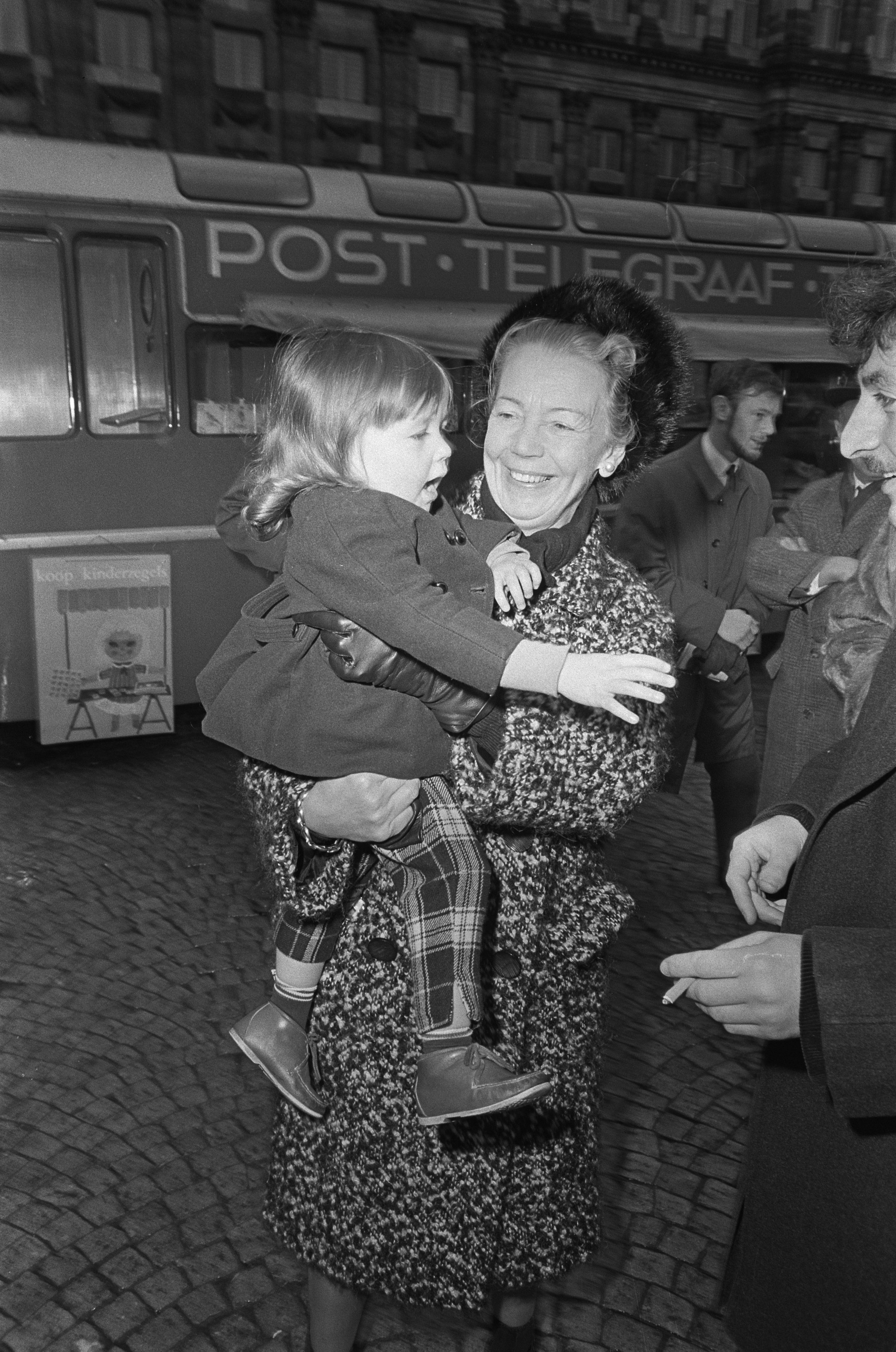 3-year old Dana Lixenberg (model for the Dutch children's stamps 1966) and the wife of Amsterdam mayor Van Hall, Emma Nijhoff. A photo of Lixenberg was used as a basis for special Dutch stamps in 1966.